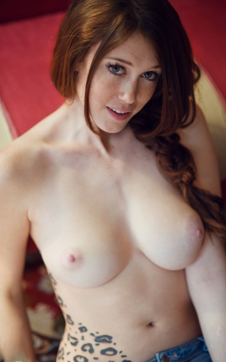 Early Evenings